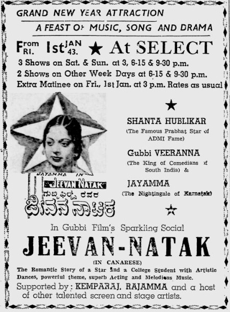 This is the advertisement for the 1943 Kannada-language film Jeevana Nataka.